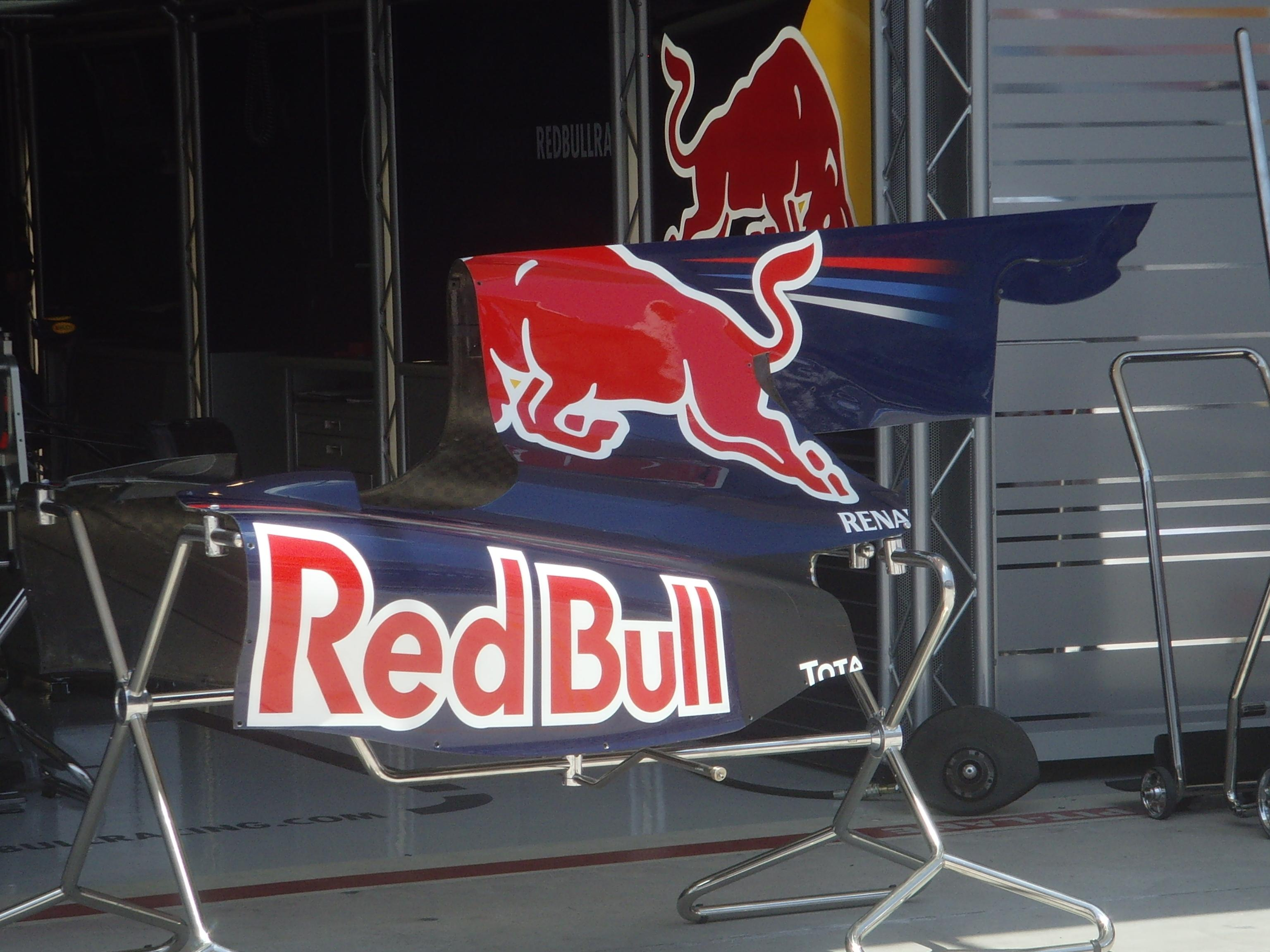 Motor hood of Red Bull RB5 in front of Red Bull Racing garage between two practice sessions on Friday of 2009 Turkish Grand Prix weekend.